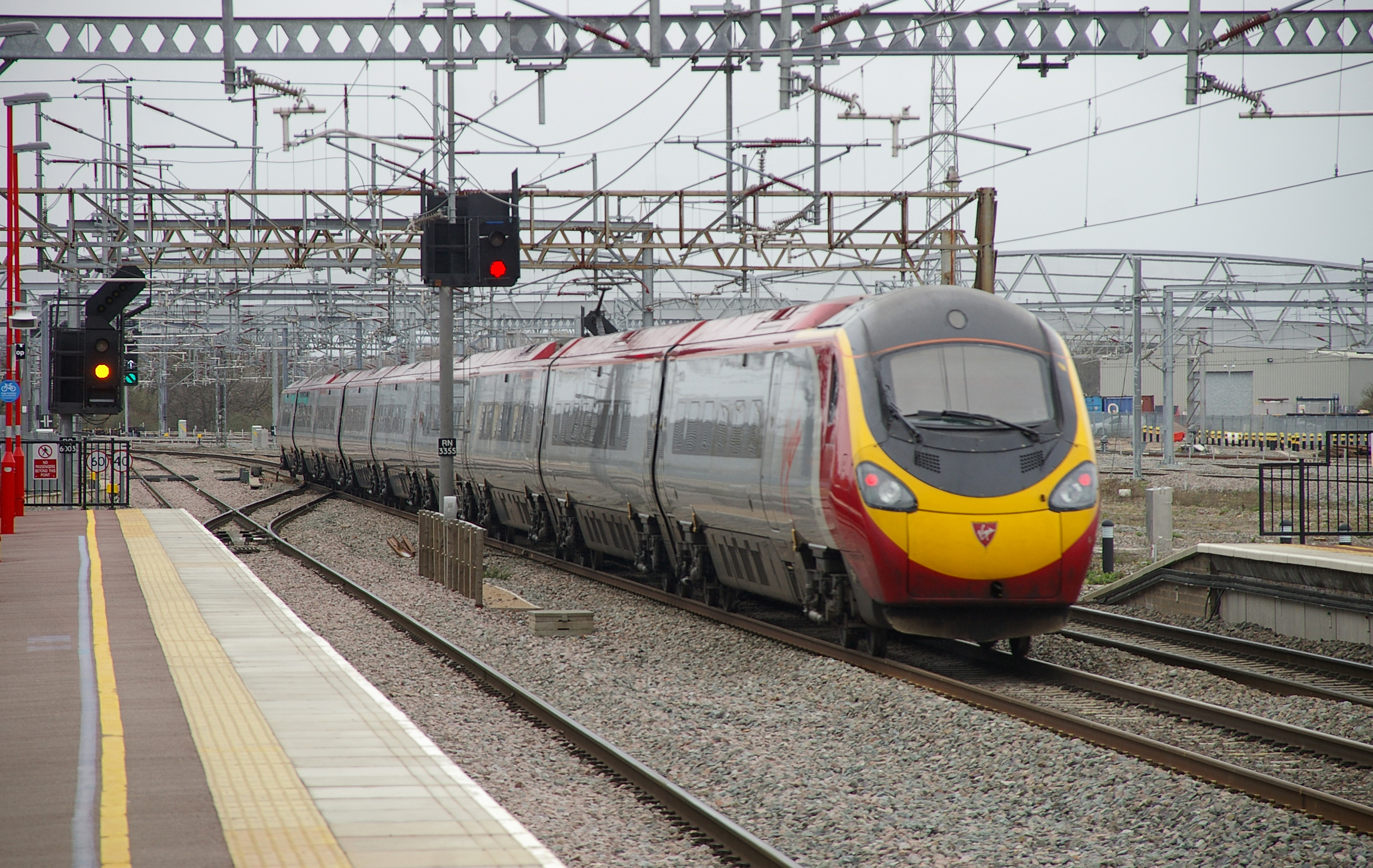 A Virgin Pendolino service rushes north through Rugby.